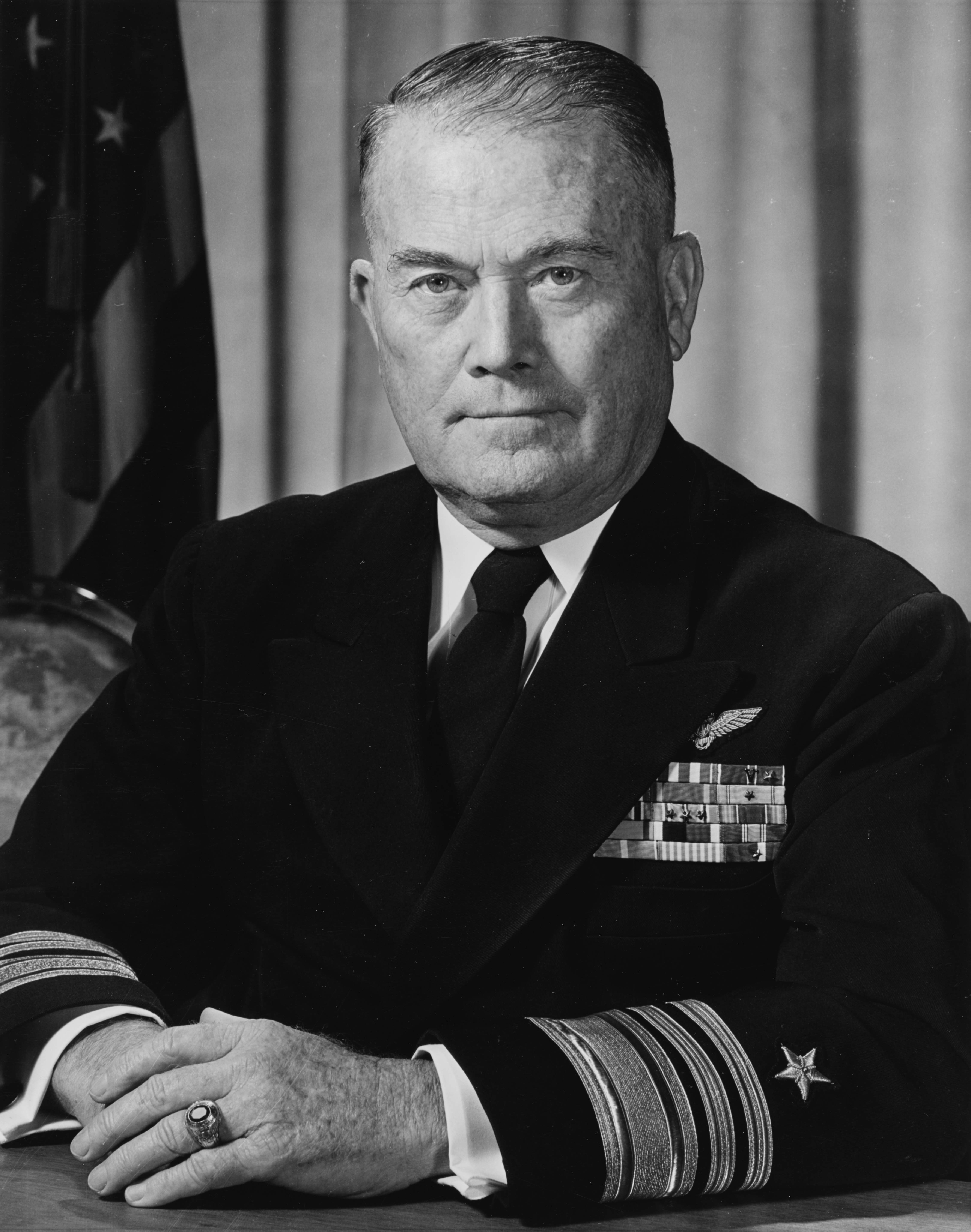 Admiral William Francis Raborn from [1]